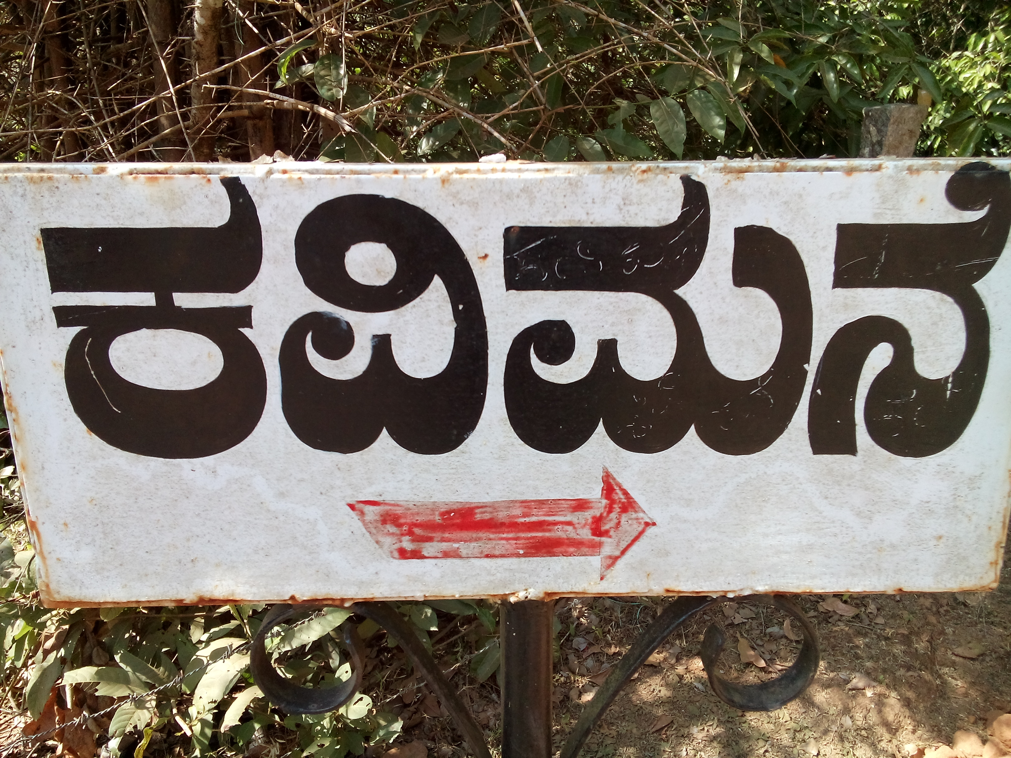 BOARD